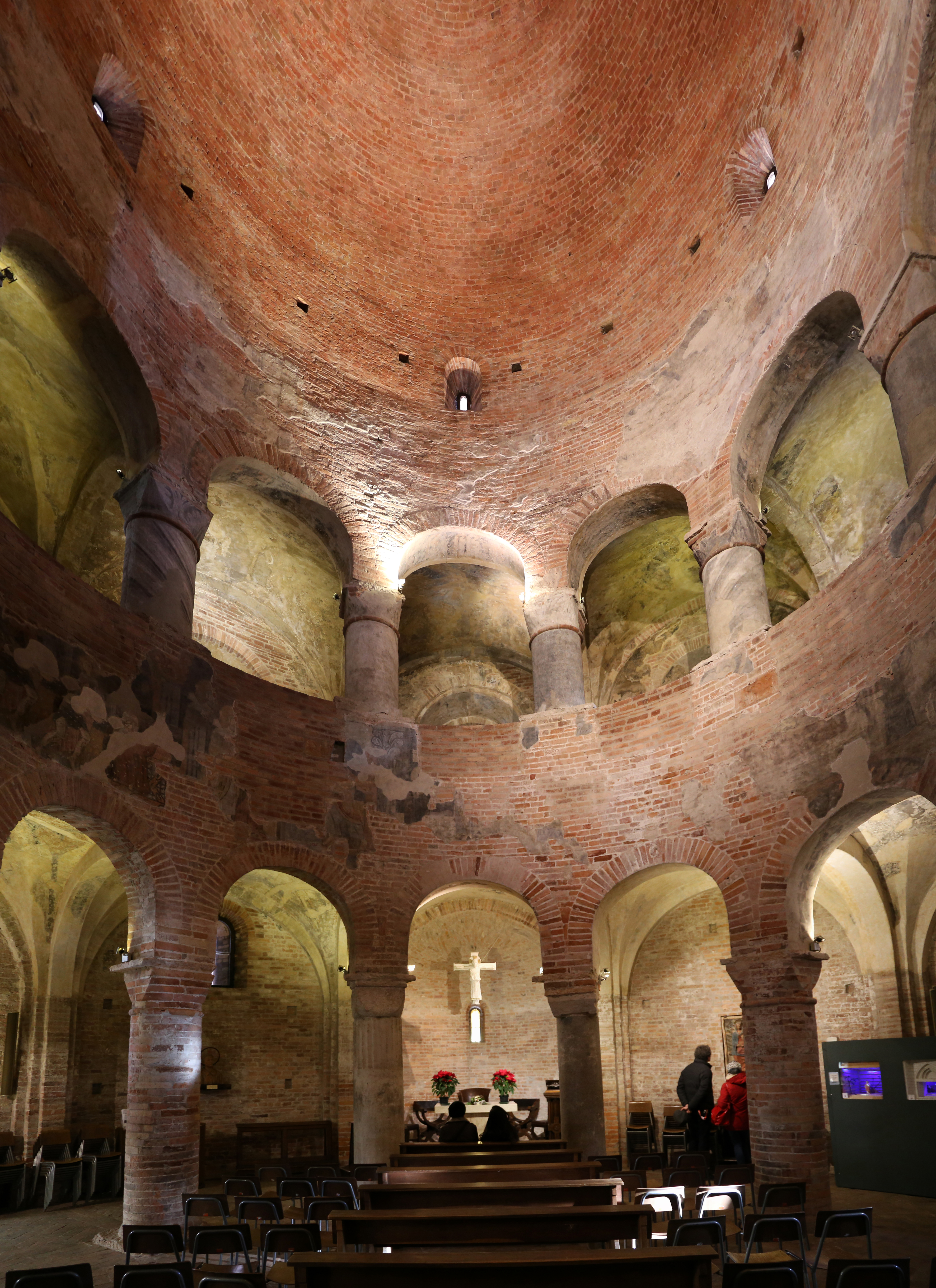 Rotonda di San Lorenzo (Mantua)